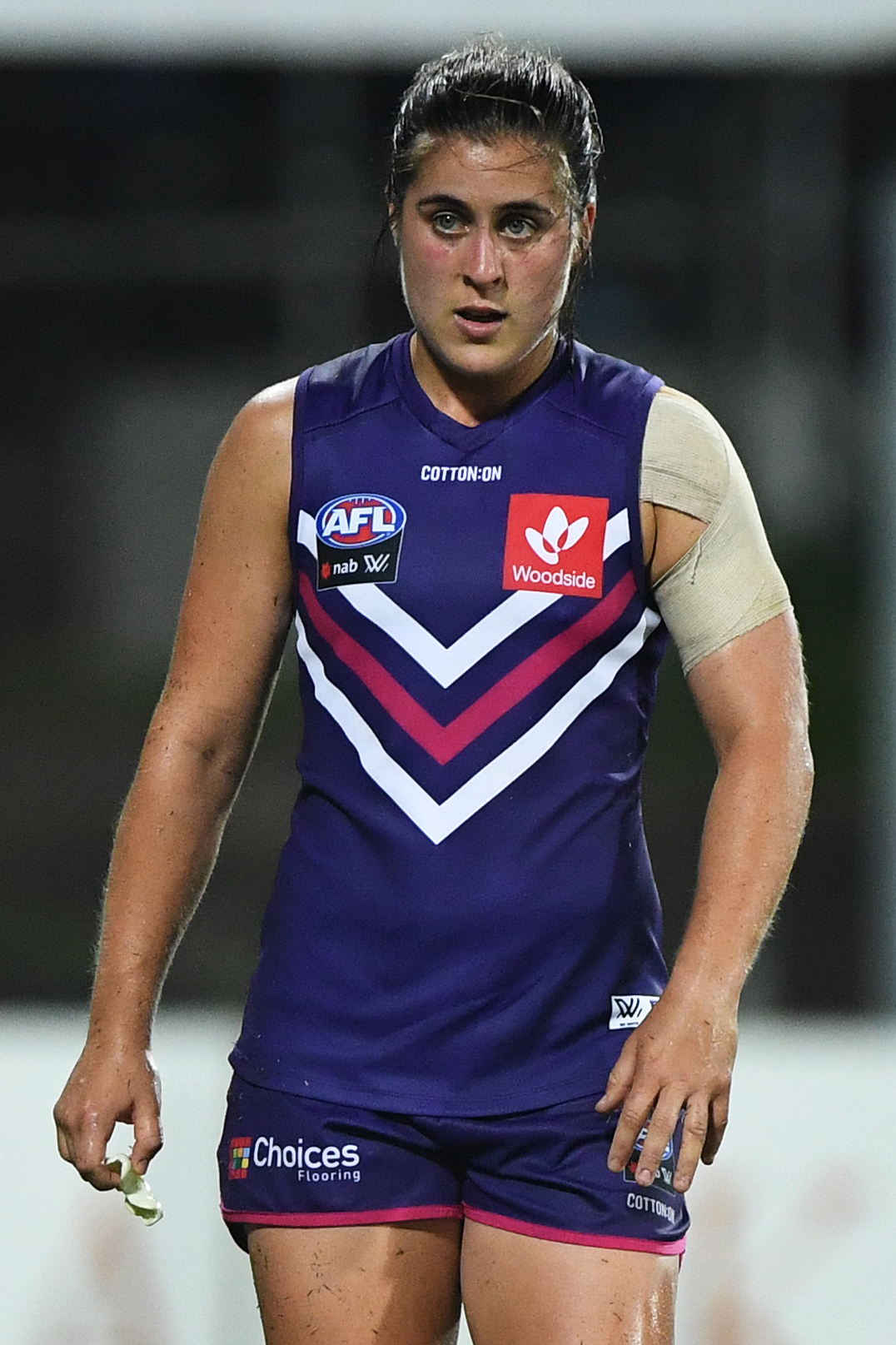 Gabby O'Sullivan of Fremantle during the 2019 AFL Women's practice match between the Adelaide Football Club and Fremantle Football Club at TIO Stadium on January 19, 2019 in Darwin Australia.